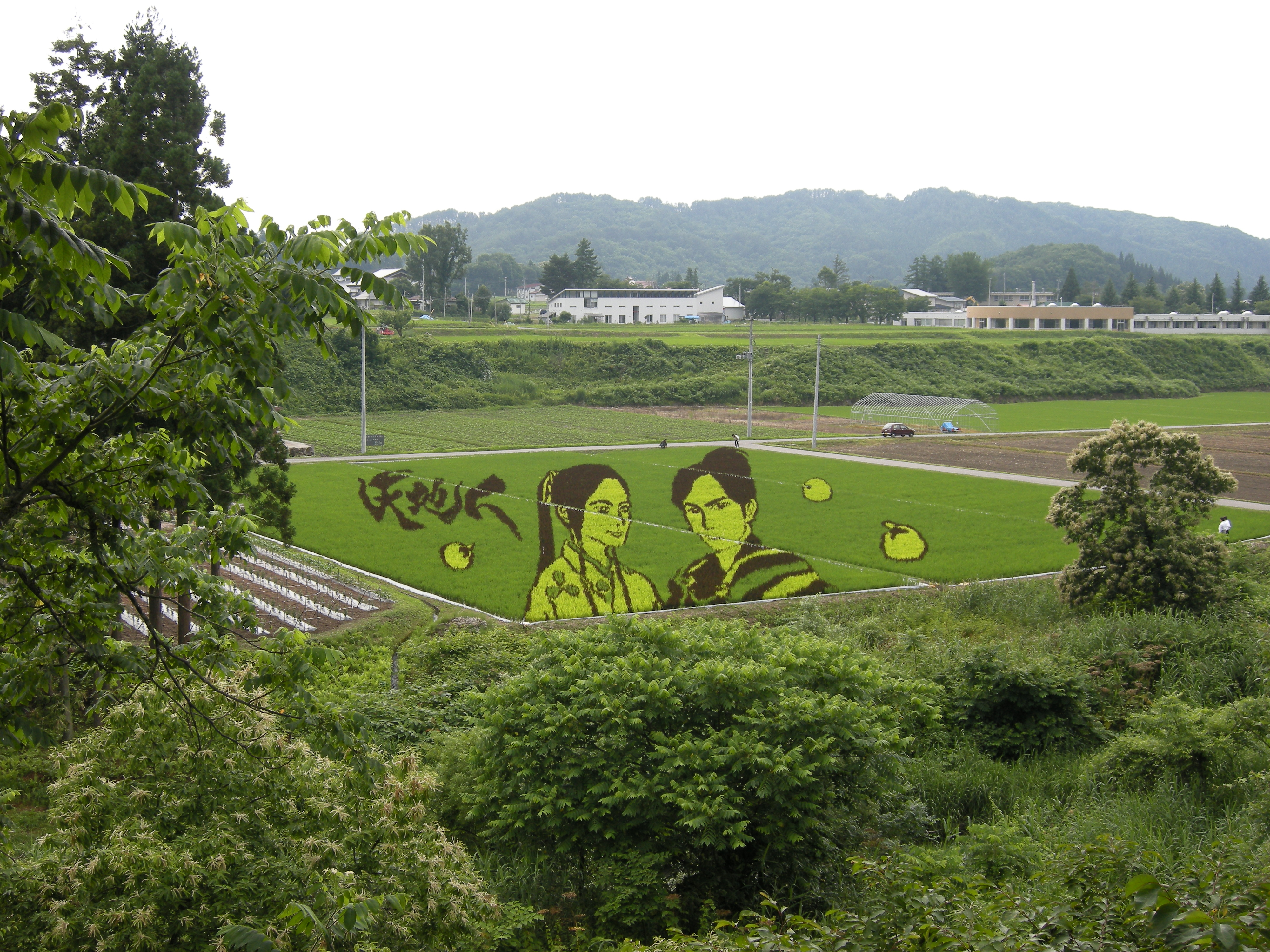 Japan, Yonezawa: tanbo art composition (Yamagata prefecture).